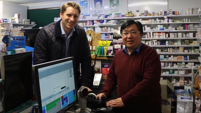 The Member for Canning in Western Australia meeting with a member of his electorate